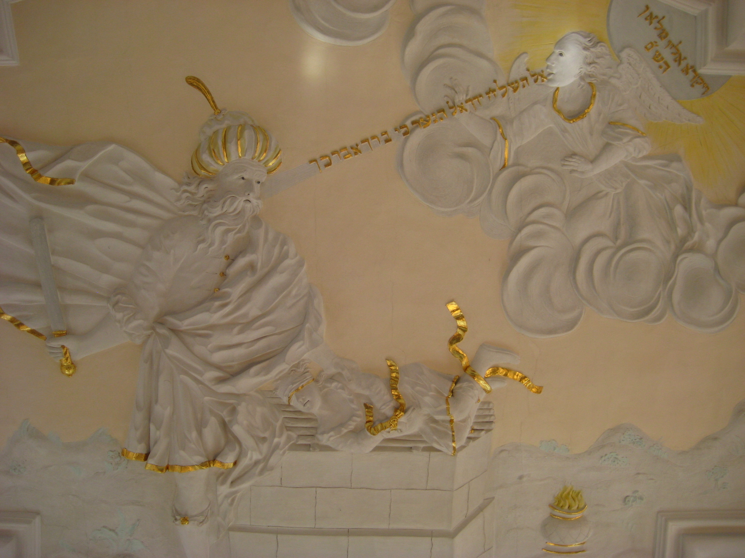 Ceiling in Monheim Town Hall: Abraham, sacrificing Issac, being stopped by the angel.